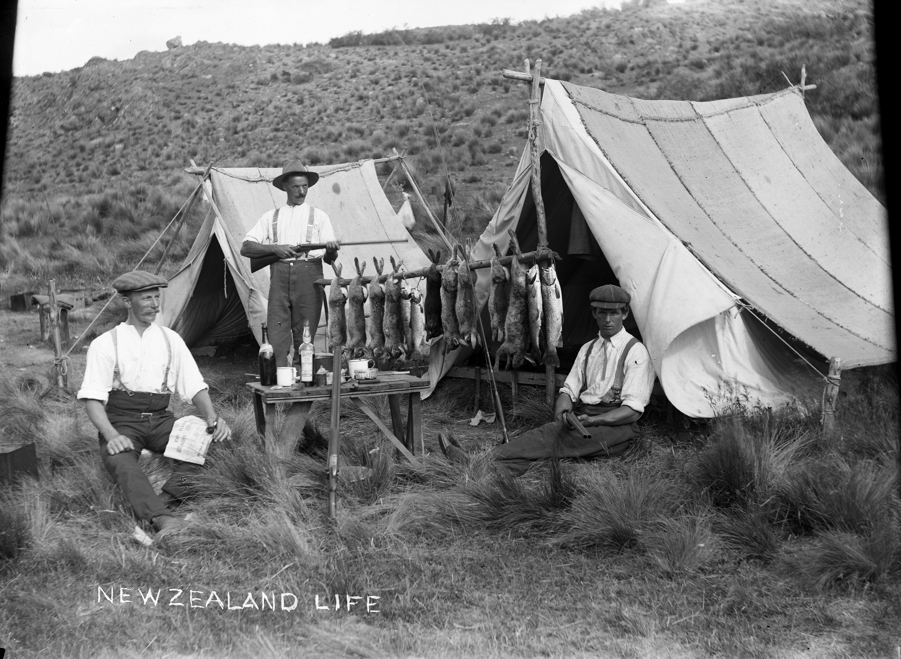 Men at their camp site displaying a catch of rabbits and fish, 1909 Reference Number: 1/2-023746-G Unidentified photographer Original negative Photographic Archive, Alexander Turnbull Library Find out more about this image from the Alexander Turnbull Library.